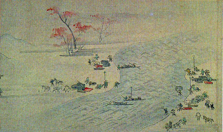 Drawing on his Journey (4)